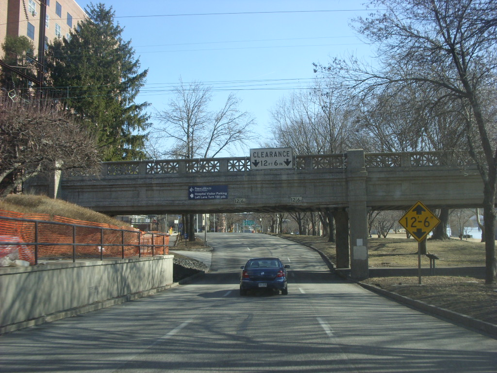 Roads of Harrisburg, Pennsylvania (addition of the CVRR-bridge over south front street)